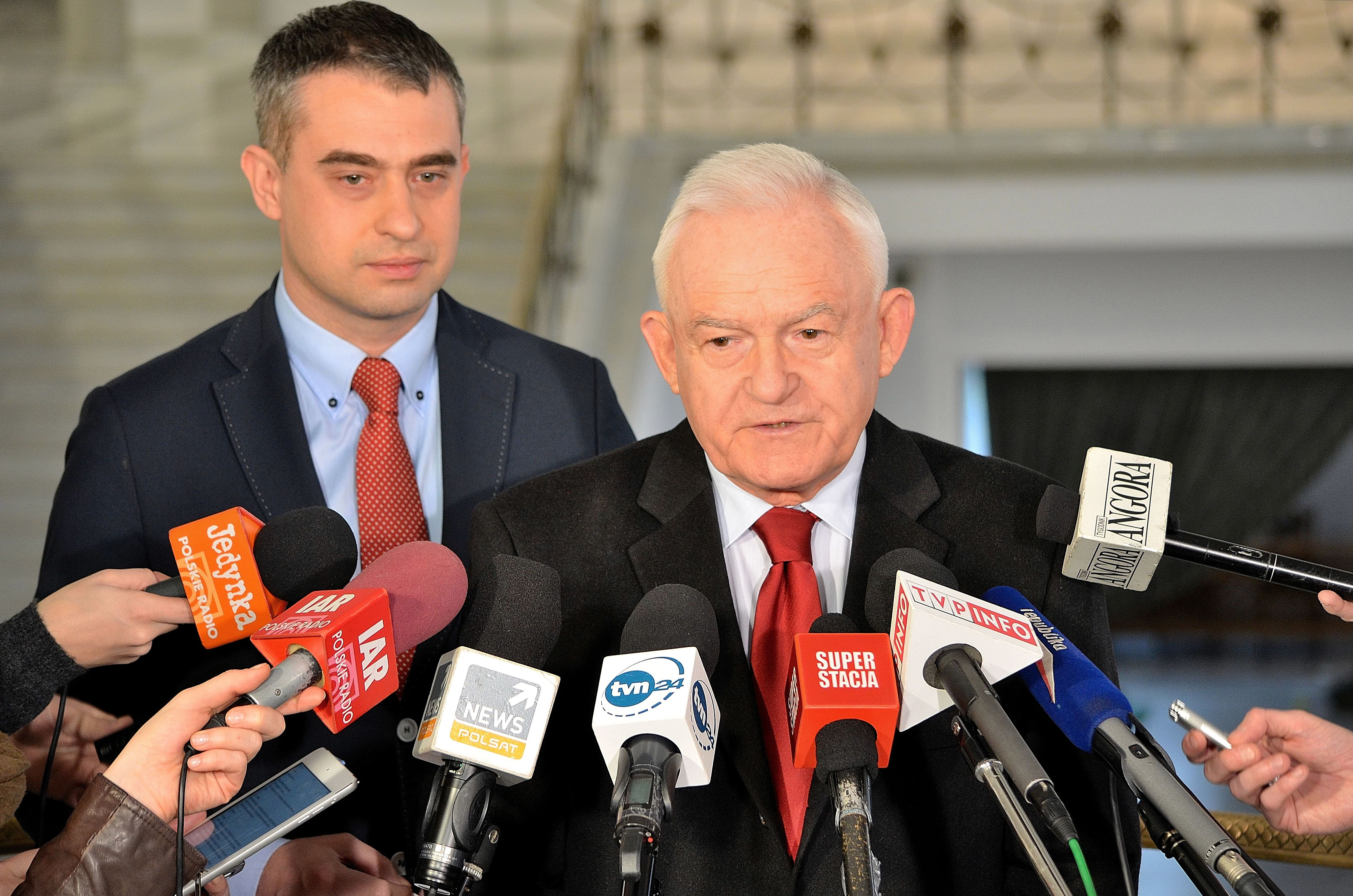 Leszek Miller and Krzysztof Gawkowski in the Sejm